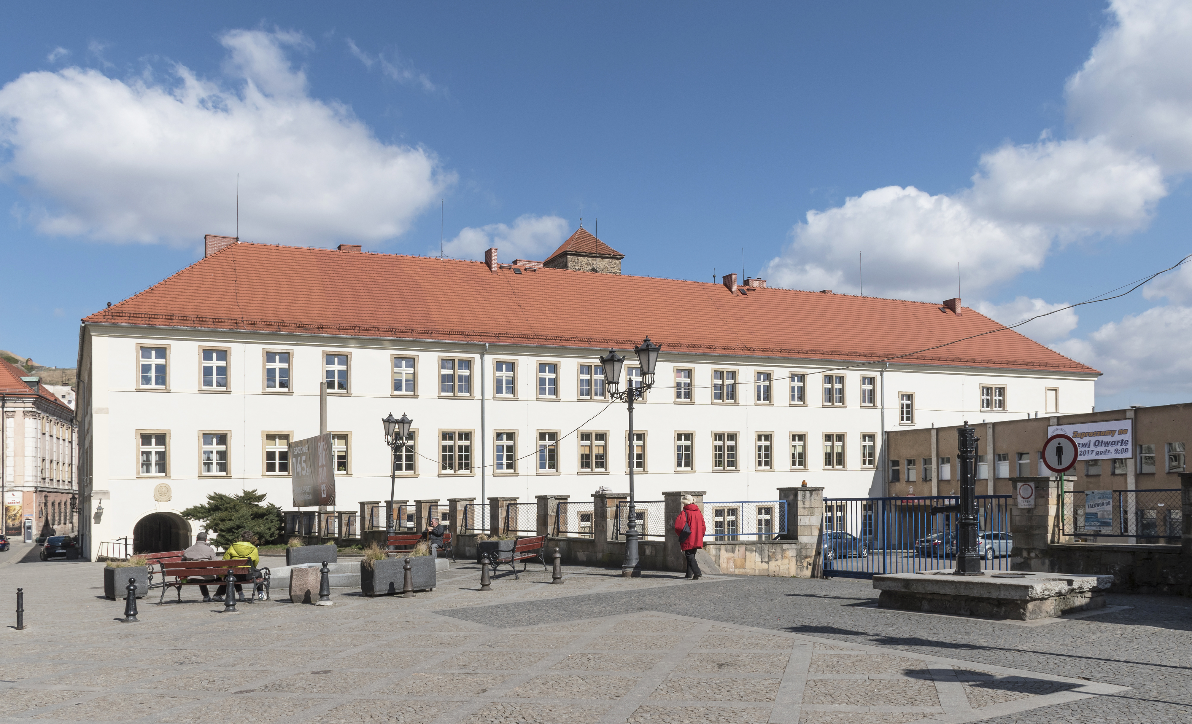 First High School in Kłodzko